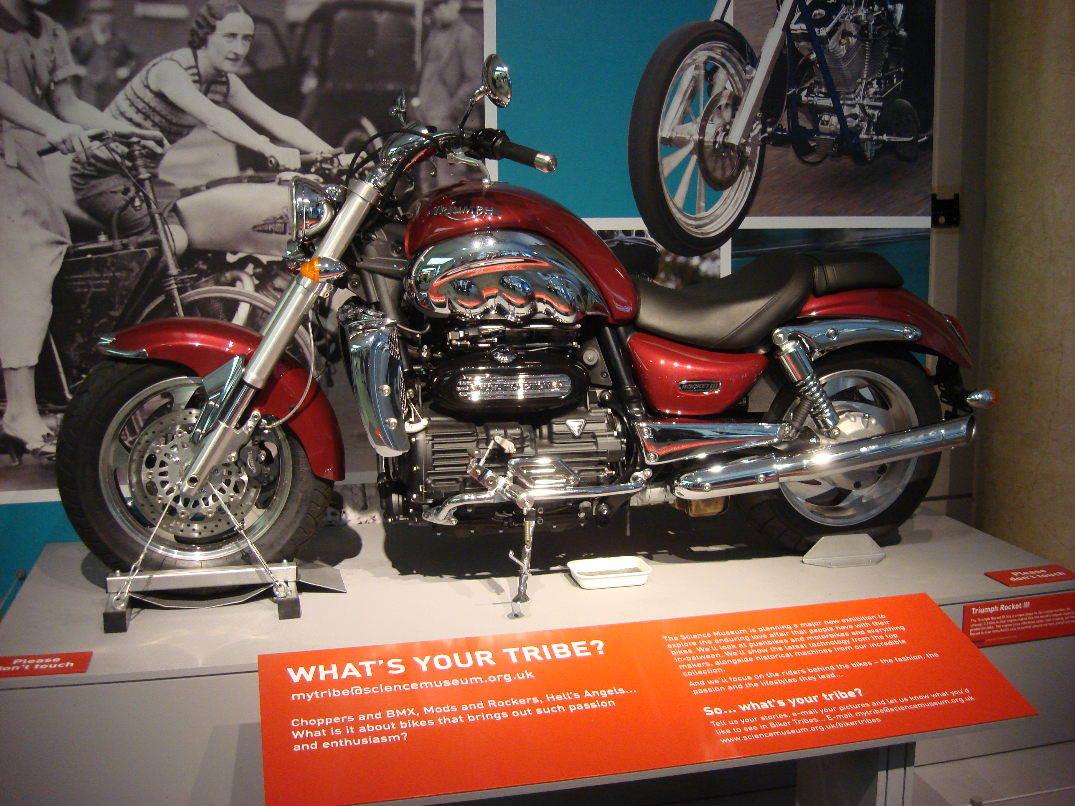 A Triumph Rocket III at the Science Museum (London)